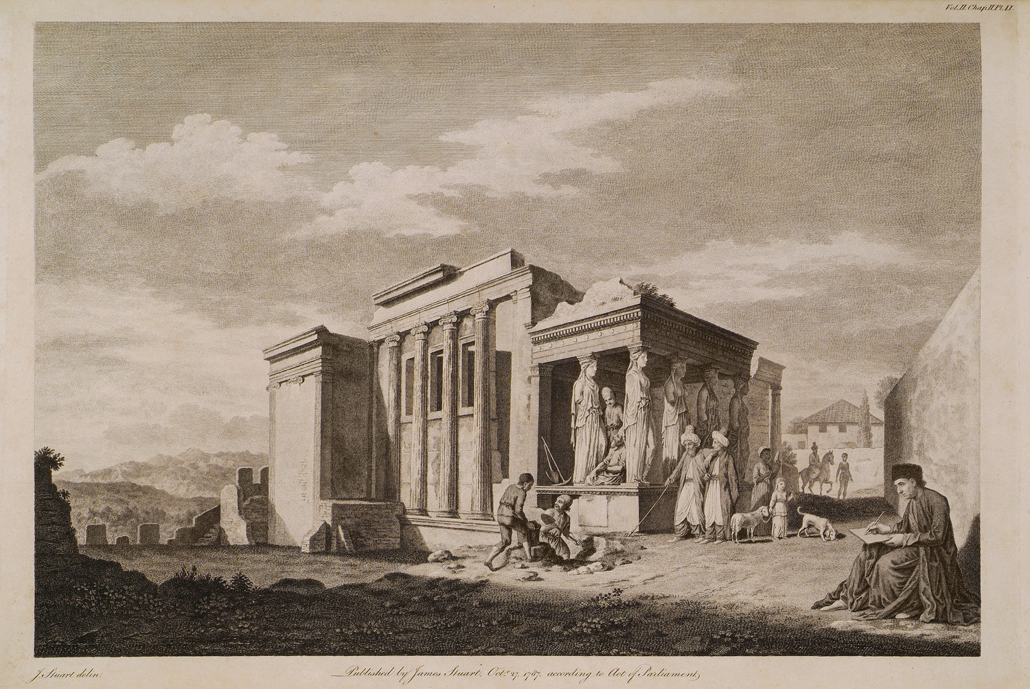 Temple of Athena and Pandroseion in the Acropolis of Athens. James Stuart & Nicholas Revett. The Antiquities of Athens measured and delineated by James Stuart F.R.S. and F.S.A. and Nicholas Revett Painters and Αrchitects, vol. III (ed. Willey Reveley), London, John Nichols, 1794